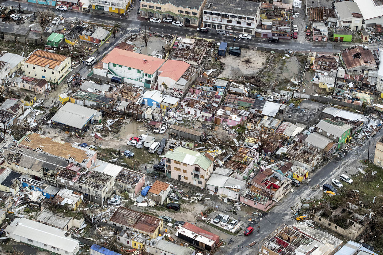 Hurricane Irma on Sint Maarten (Caribbean Netherlands) - air photo